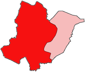 Map of Bomi County, Liberia showing Klay District; created with the GIMP. Made by User:Acntx.